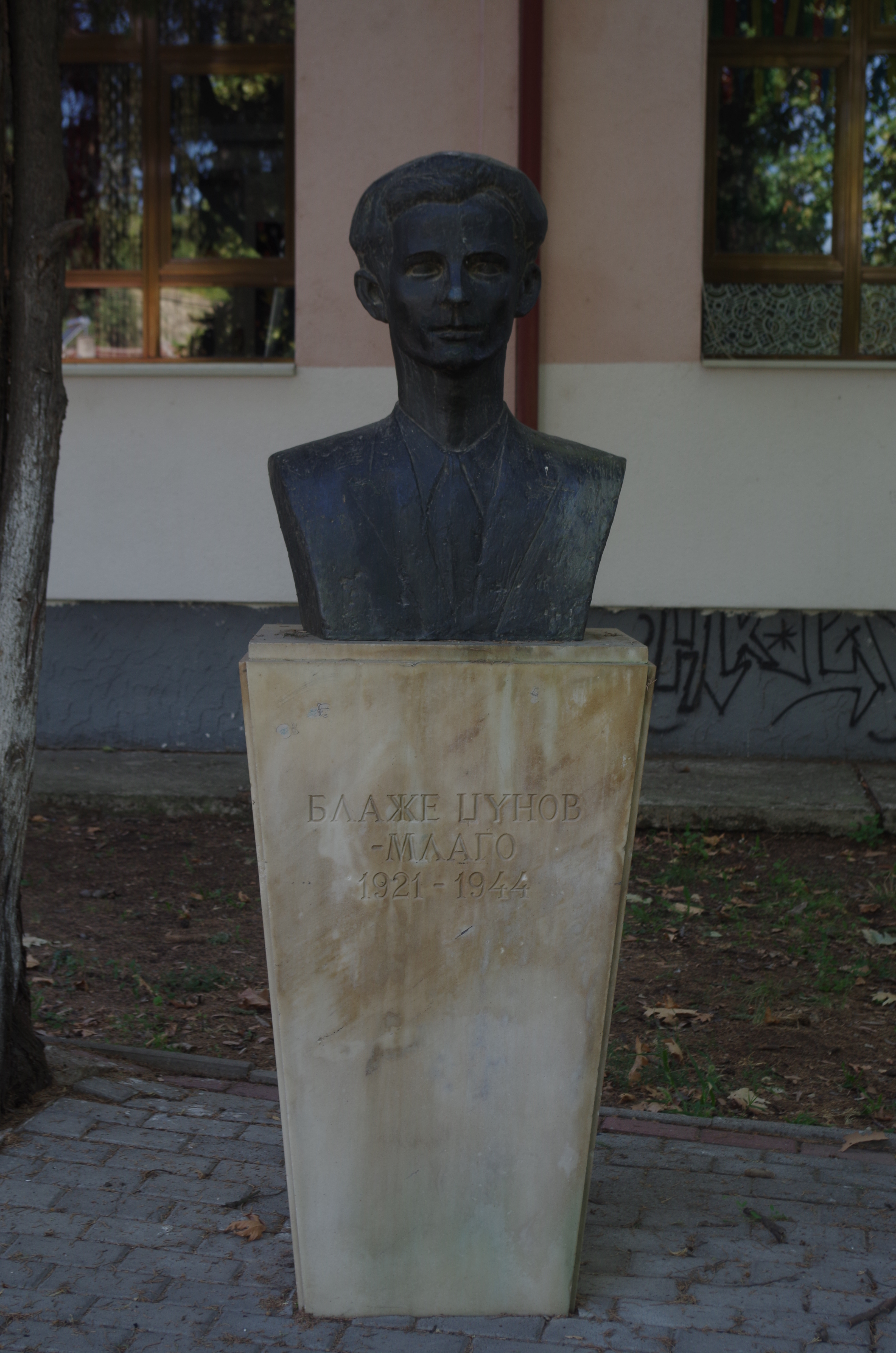 Monument of Blaže Džunov - Mlago (1916-1943) in the village of Vataša